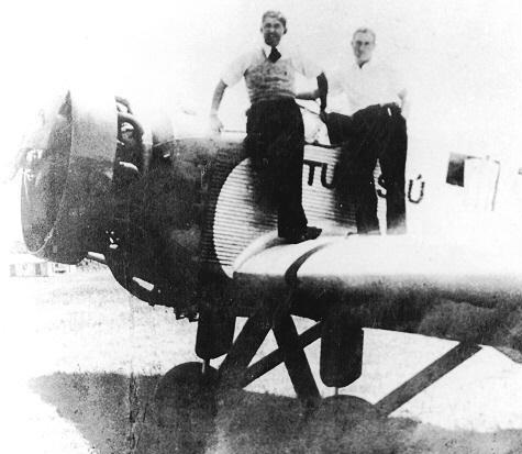 Commander Severiano Lins and friend in a Junker Aircraft